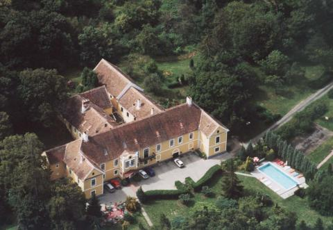 Sitke, Hungary, aerialphotography